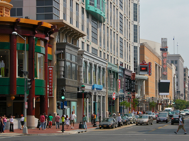 Gallery Place